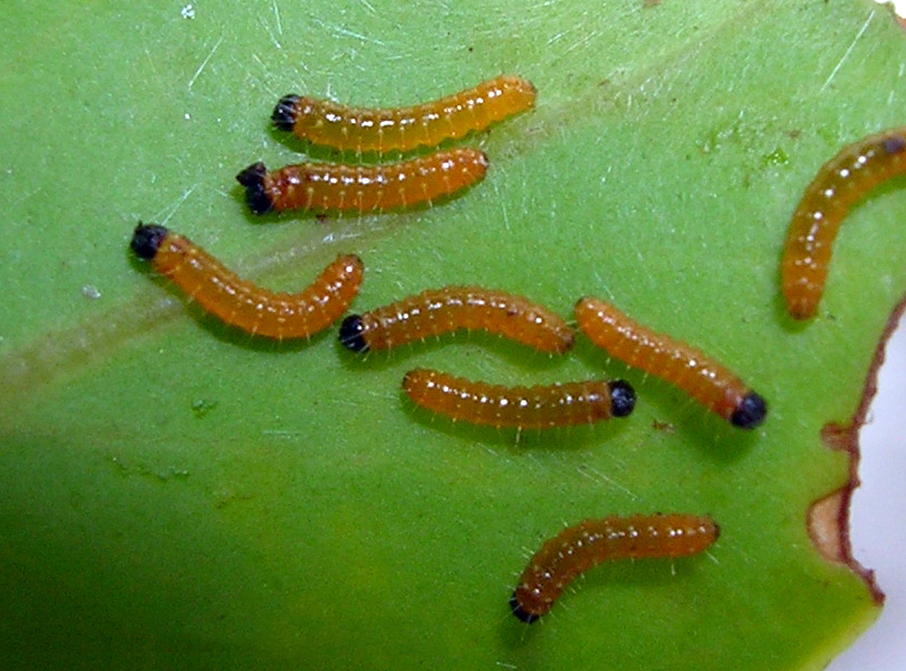 Delias eucharis caterpillar